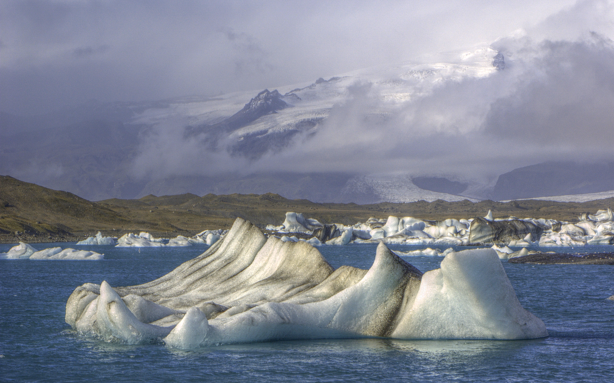 Jökulsárlón lagoon in southeastern Iceland